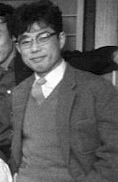 Junkō Shindō (1922–99)